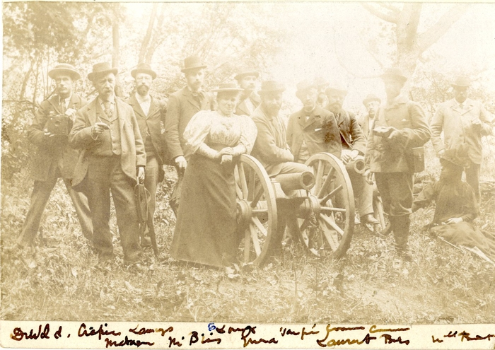 Excursion of the Société royale de Botanique de Belgique in Germany in 1893 (Crépin second from left)